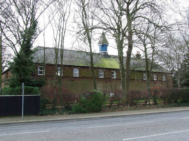 Weelsby Road, Grimsby. Rear View of the Weelsby Park Riding School Stable Block. Originally built for Alexander Grant - Thorold of Weelsby Old Hall in 1865. A Grade II Listed Building.